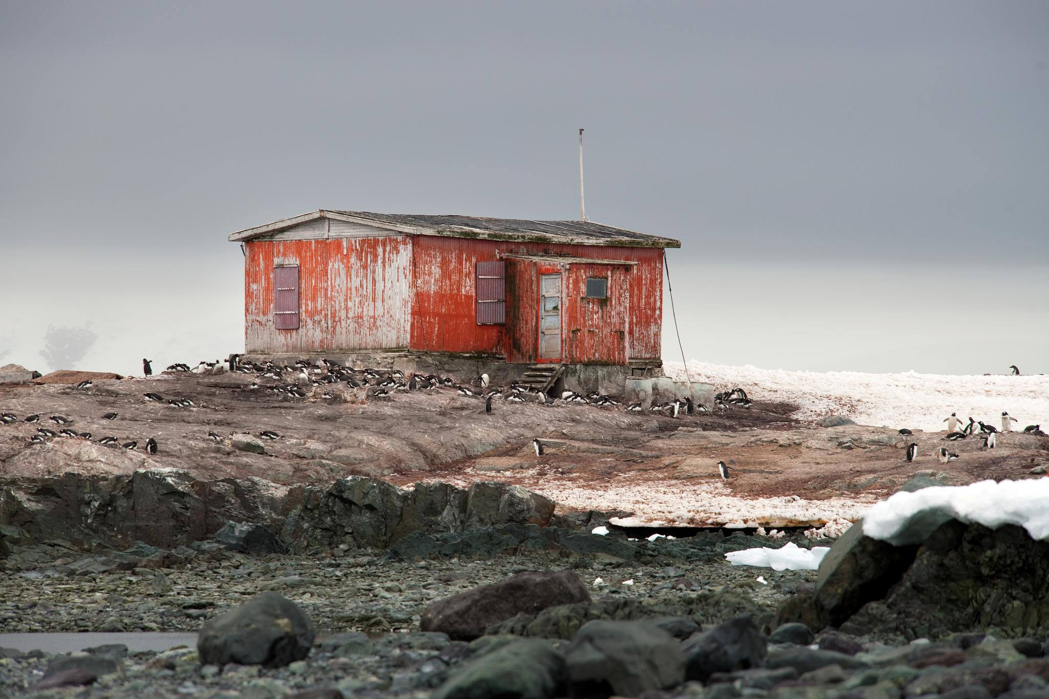 Knock loud, I'm home. Petermann Island, Antarctica.